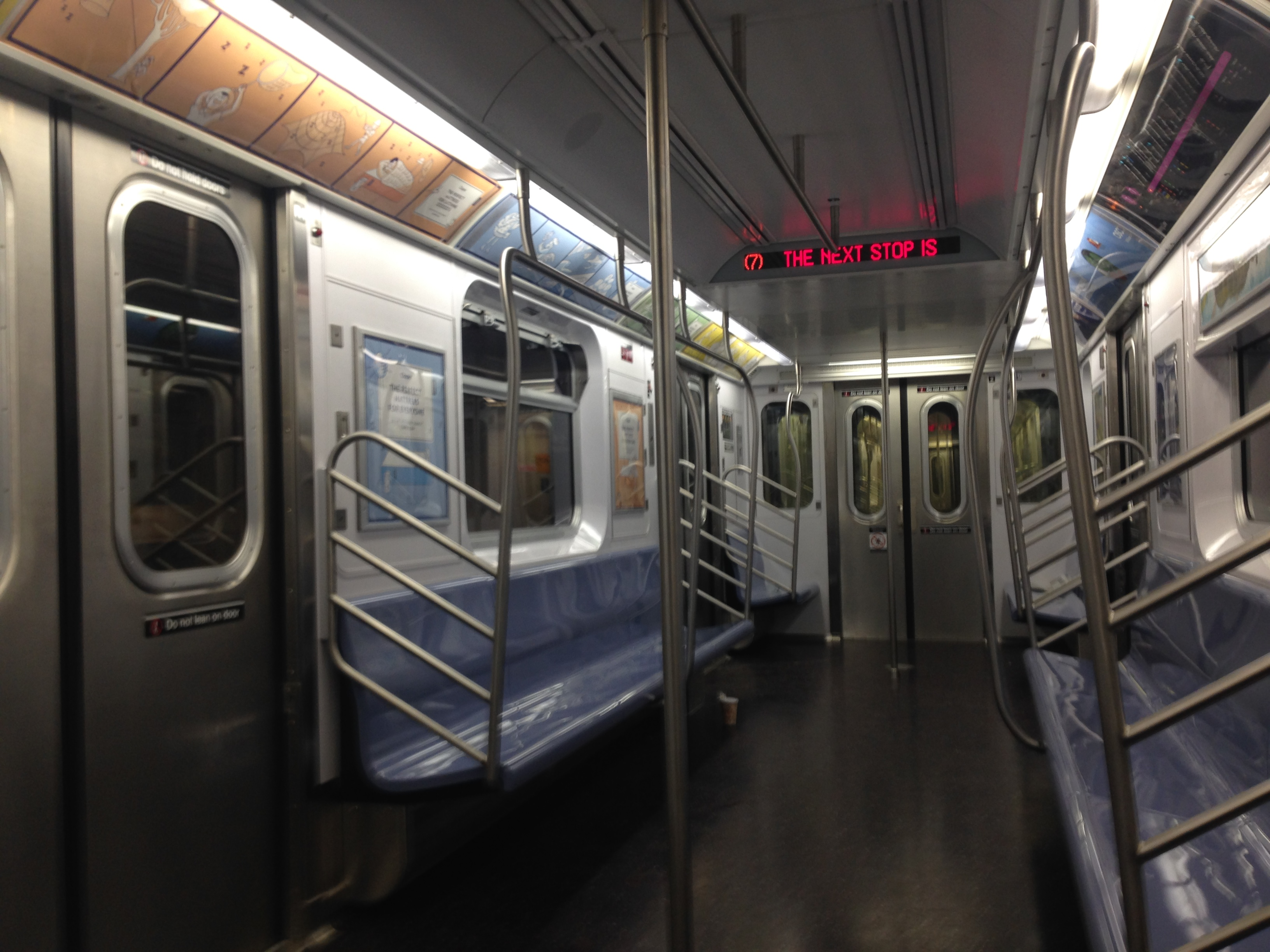 R188 #7919